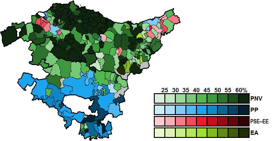 Most-voted party in Basque Country municipalities, showing vote share obtained, in the Spanish general election, 2000.